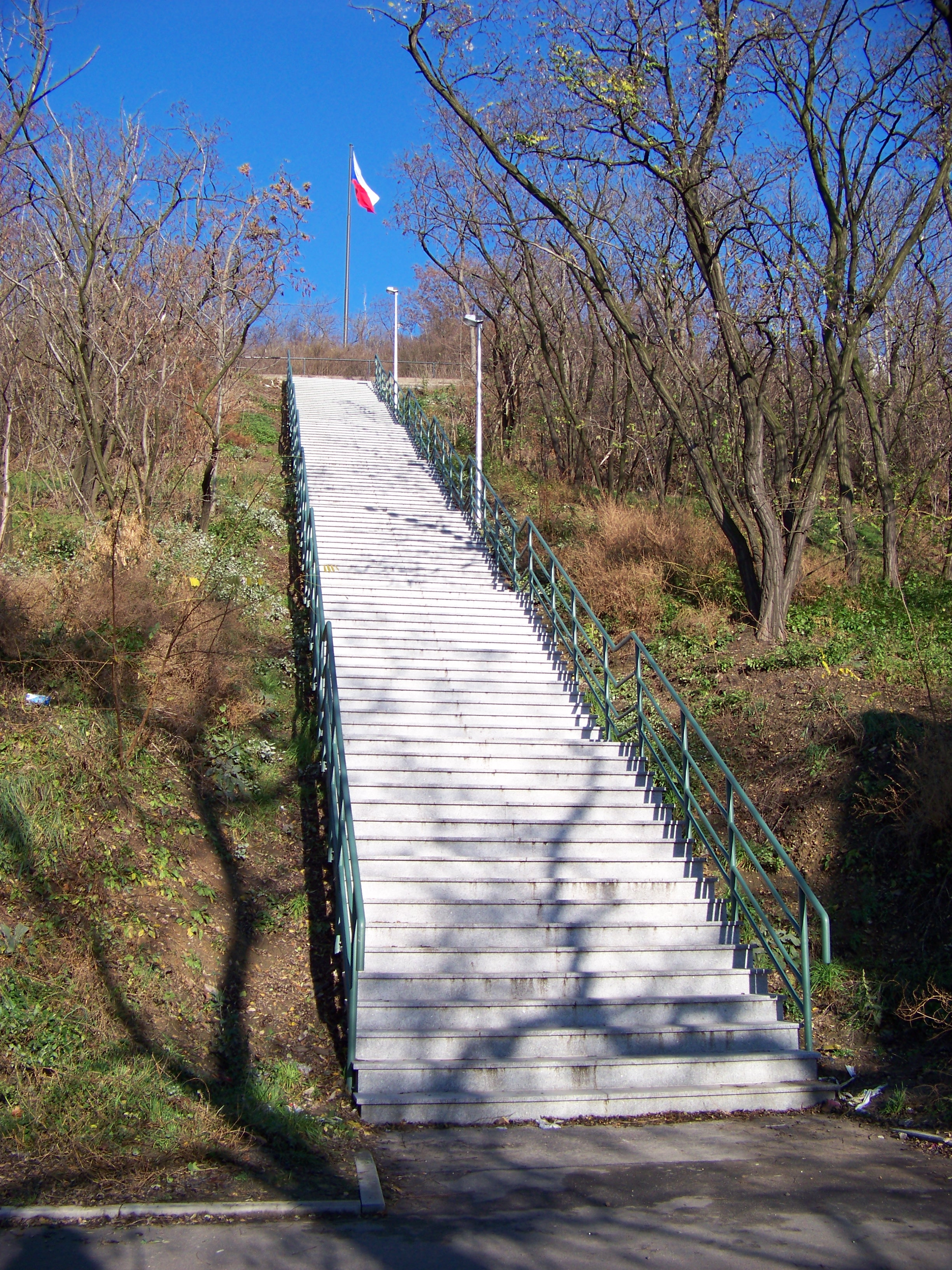 Prague-Žižkov. A staircase to Vítkov Hill, a view from the bikeway on the former railway track Prague–Turnov.